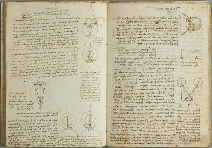 Leonardo da Vinci, Paris Manuscript D, Folio 3v and 4r, Institut de France